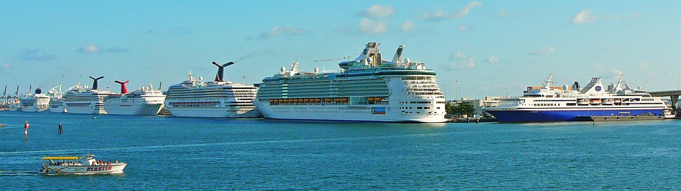 Digital photo taken by Marc Averette. Port of Miami 12/8/2007